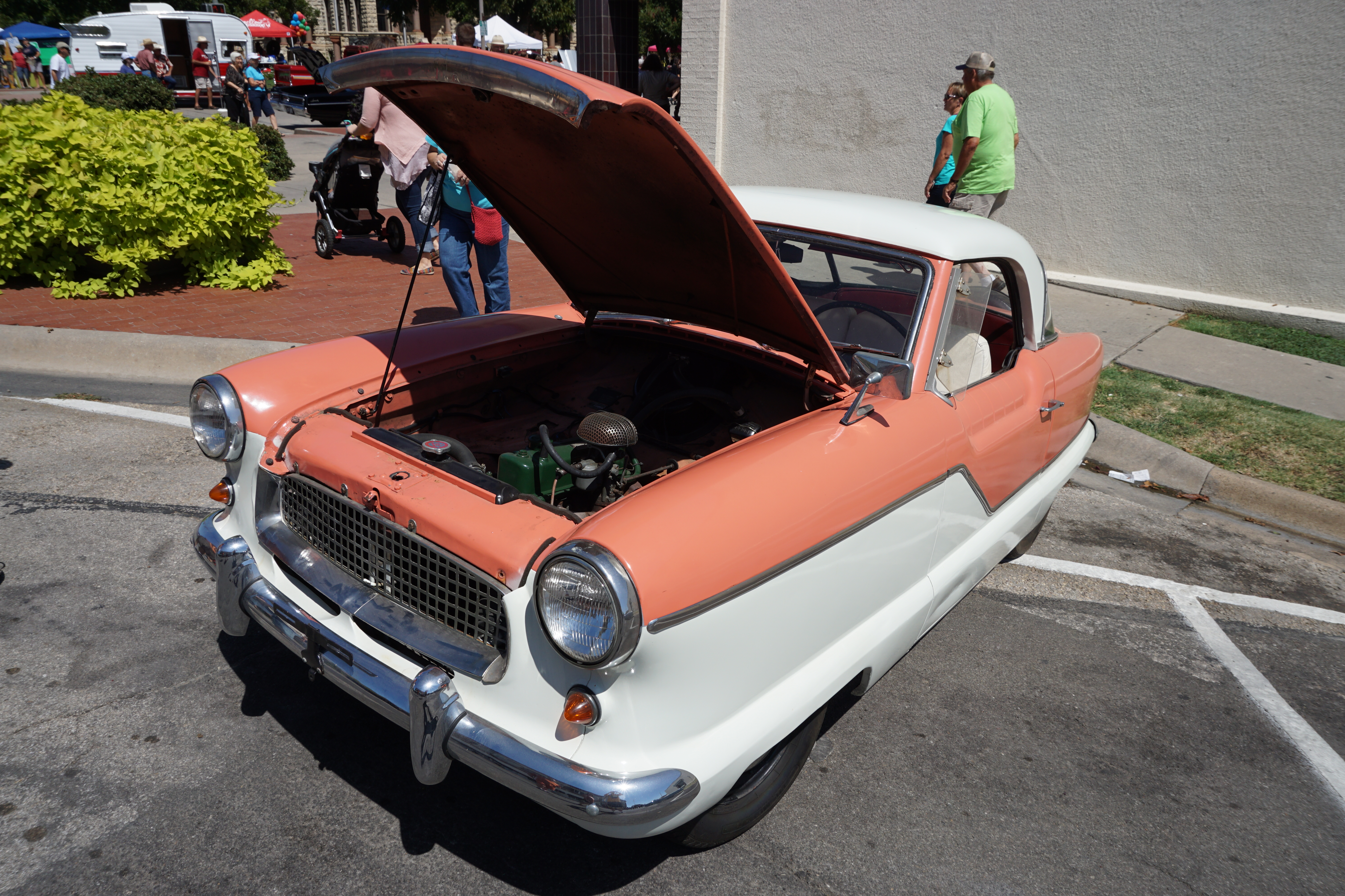 A 1957 Nash Metropolitan at the Arts, Antiques & Autos Extravaganza in Denton, Texas (United States).